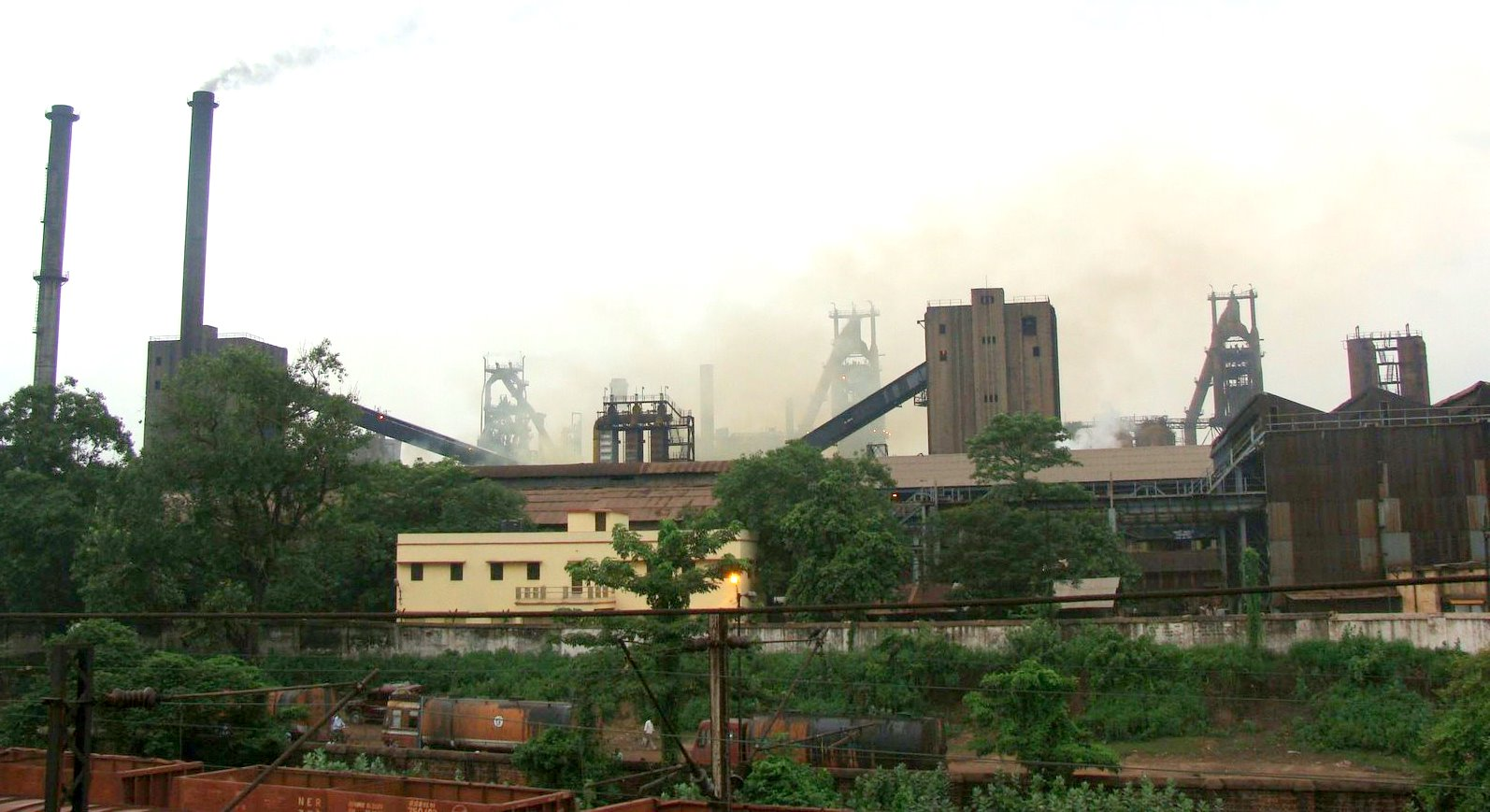 ISP Burnpur